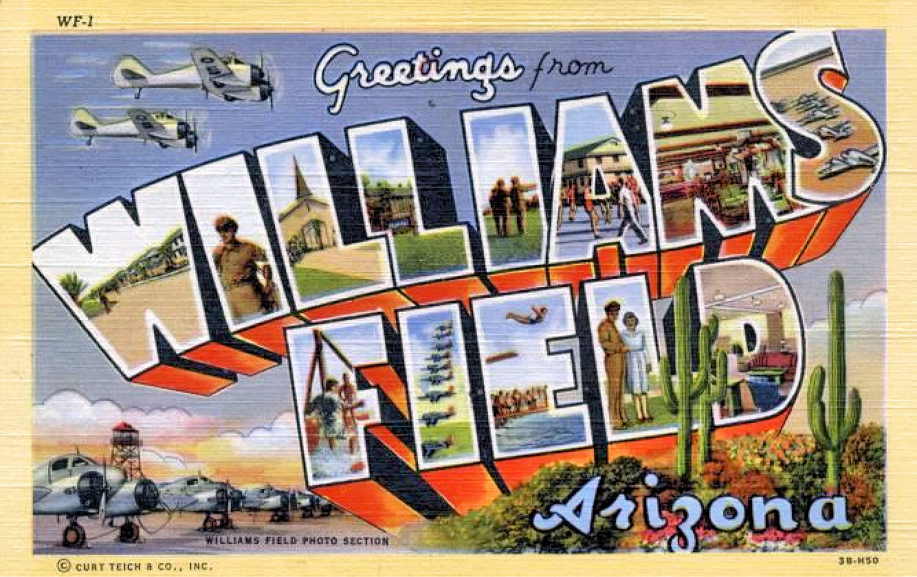 Army Air Forces - Postcard - Williams Field Arizona